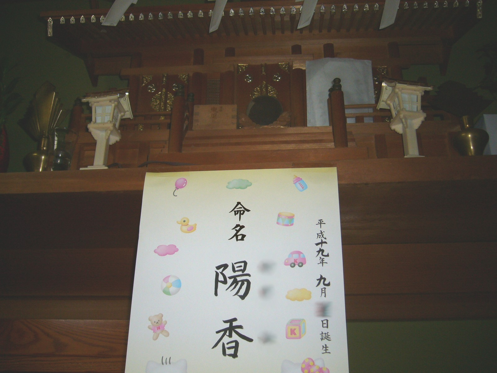 name the baby & household Shinto altar,japan